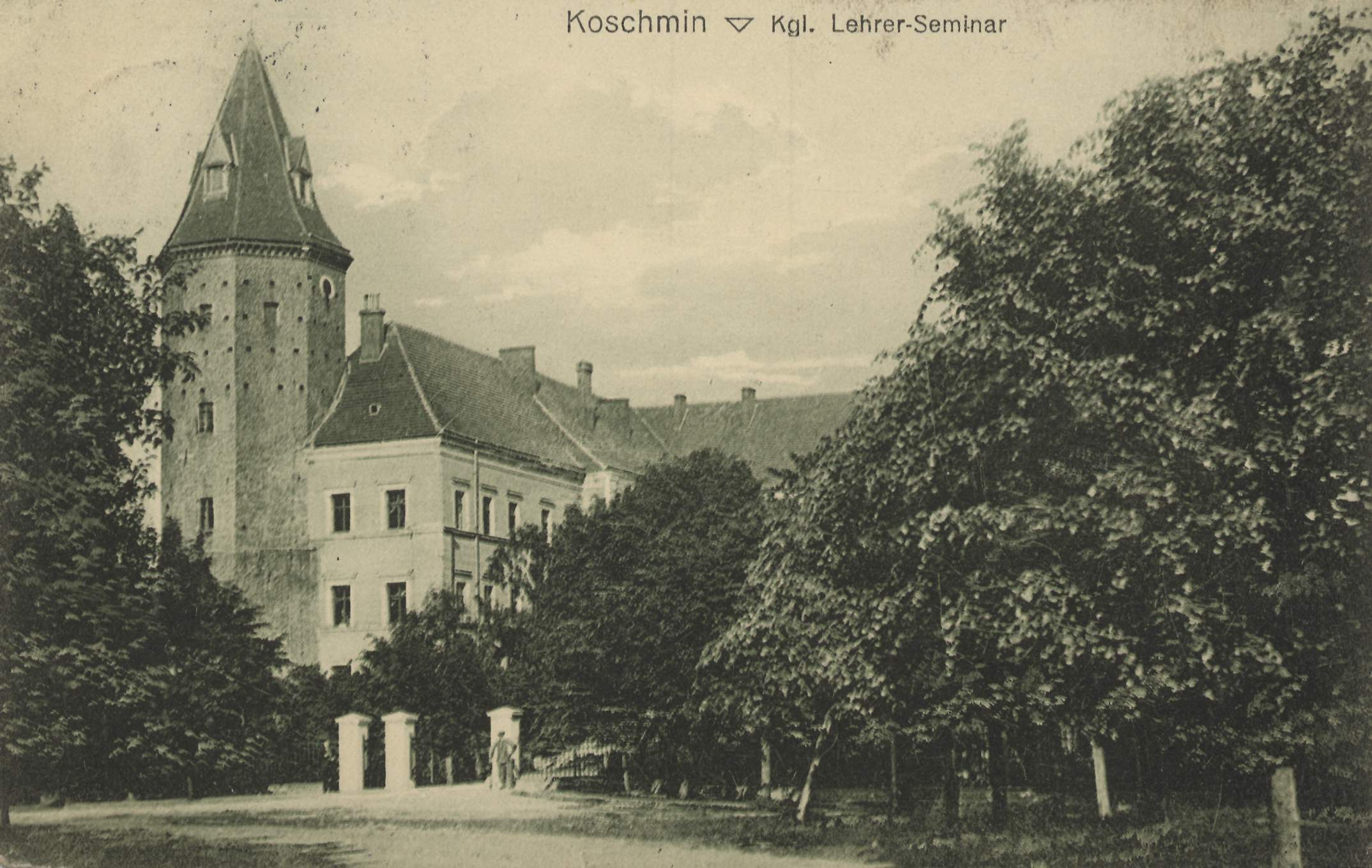 Koźmin Wielkopolski (1917).